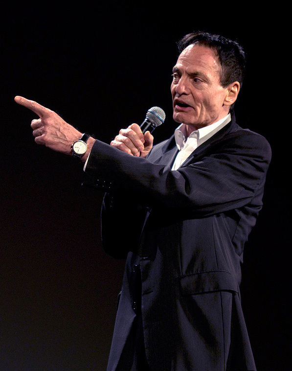 German actor Dieter Laser, at Brussels International Fantastic Film Festival, in April 2010